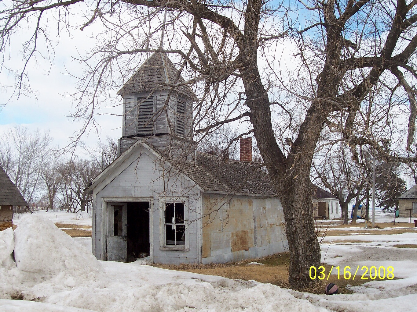 Tenney Fire Hall I, Benjamin Tighe, took this photograph of the Tenney Fire Hall on the afternoon of March 16, 2008 for the express purpose of uploading it to Wikipedia. I release all ownership rights to this image and do hereby permit any and all future uses without limitation, by all parties and for all purposes.